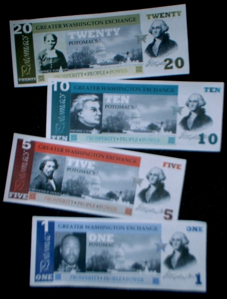 Some Potomacs